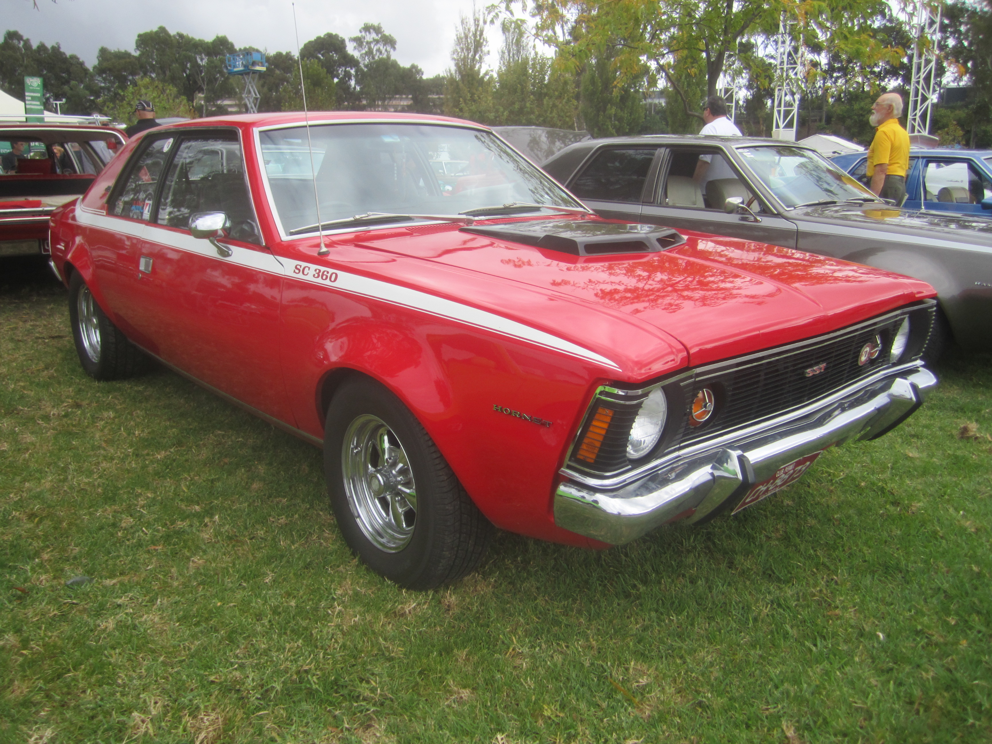 The Hornet was a compact car built by AMC from 1969-77 in the US, but variations were also built in Mexico and Australia. Only available in 2 door sedan, in 1970, base or SST. The SC360 was a muscle car built only in 1971, sporting styled wheels, hood scoop, unique striping and 285hp 360 cu in V8. Only 784 werebuilt